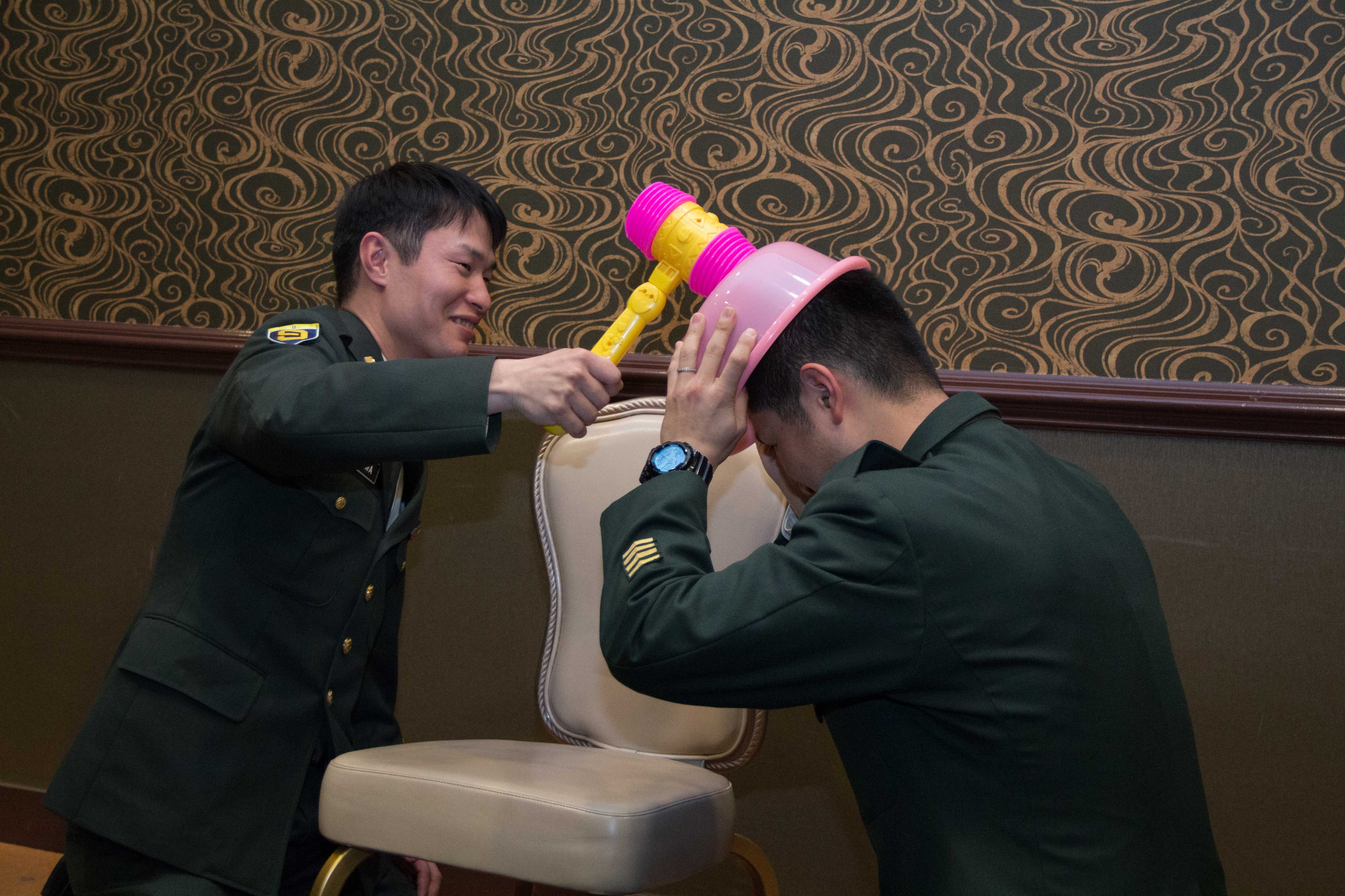 CAMP ZAMA, Japan – Noncommissioned officers assigned to U.S. Army Japan (USARJ) welcomed their Japan Ground Self-Defense Force (JGSDF) counterparts to Camp Zama Feb. 25, 2016, during the Japan Sergeants Salute. This bilateral engagement recognized 15 new inductees of the Soyou Association, an NCO-led organization that selects the most talented, recently promoted sergeants from all five regional armies in the JGSDF. The week-long event included a one-day visit to Camp Zama, where the young JGSDF sergeants and their senior NCO mentors observed and experienced life in the U.S. Army. Army Command Sgt. Maj. Eric C. Dostie, command sergeant major, USARJ, personally congratulated his guests on their recent accomplishments and complimented them on their continued commitment to empowering the partnership between their respective countries. His opening remarks and introductory brief about USARJ’s missions and capabilities were followed by a tour of Camp Zama’s airfield, military police facilities, and historical sites. The educational formalities gave way to an evening social at the Camp Zama Community Club where USARJ and JGSDF NCOs shared their experiences over hot food, cold drinks and gift exchanges. The JGSDF service members returned their hosts’ gracious hospitality by performing humorous skits, magic tricks, juggling acts and even a judo demonstration that received hardy laughter and applause from the international audience. The JGSDF Soyou Association members will spend three days in Okinawa meeting various commands and communities from the Japan Self-Defense Forces and all branches of the U.S. military. Photo by Army Sgt. John L. Carkeet IV, U.S. Army Japan